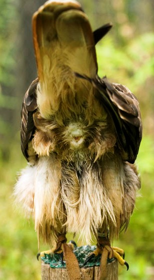 Photo of avian cloaca or vent. Dunnock (Prunella modularis), specifically.